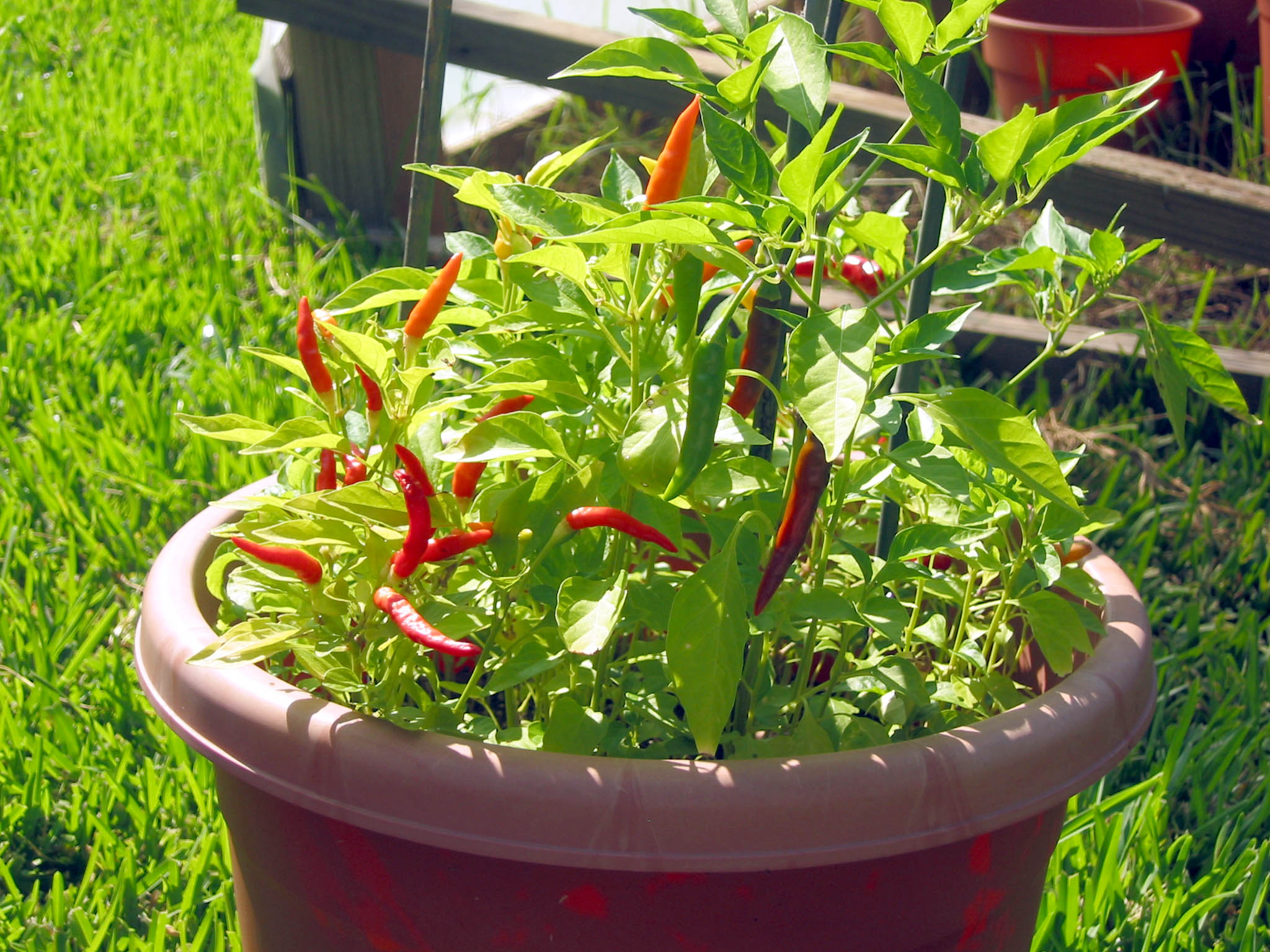 Picture of some African red devil peppers from my garden. Taken by Jeff Lawson